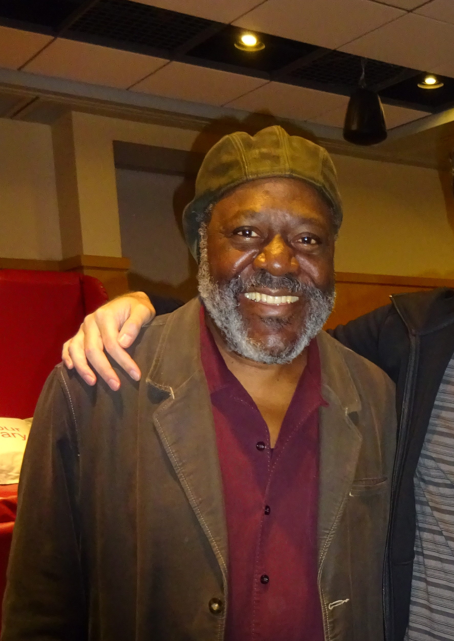 NJ native and star of Luke Cage, Banshee, The Wire, The Langoliers. Montclair, NJ. Oct '16